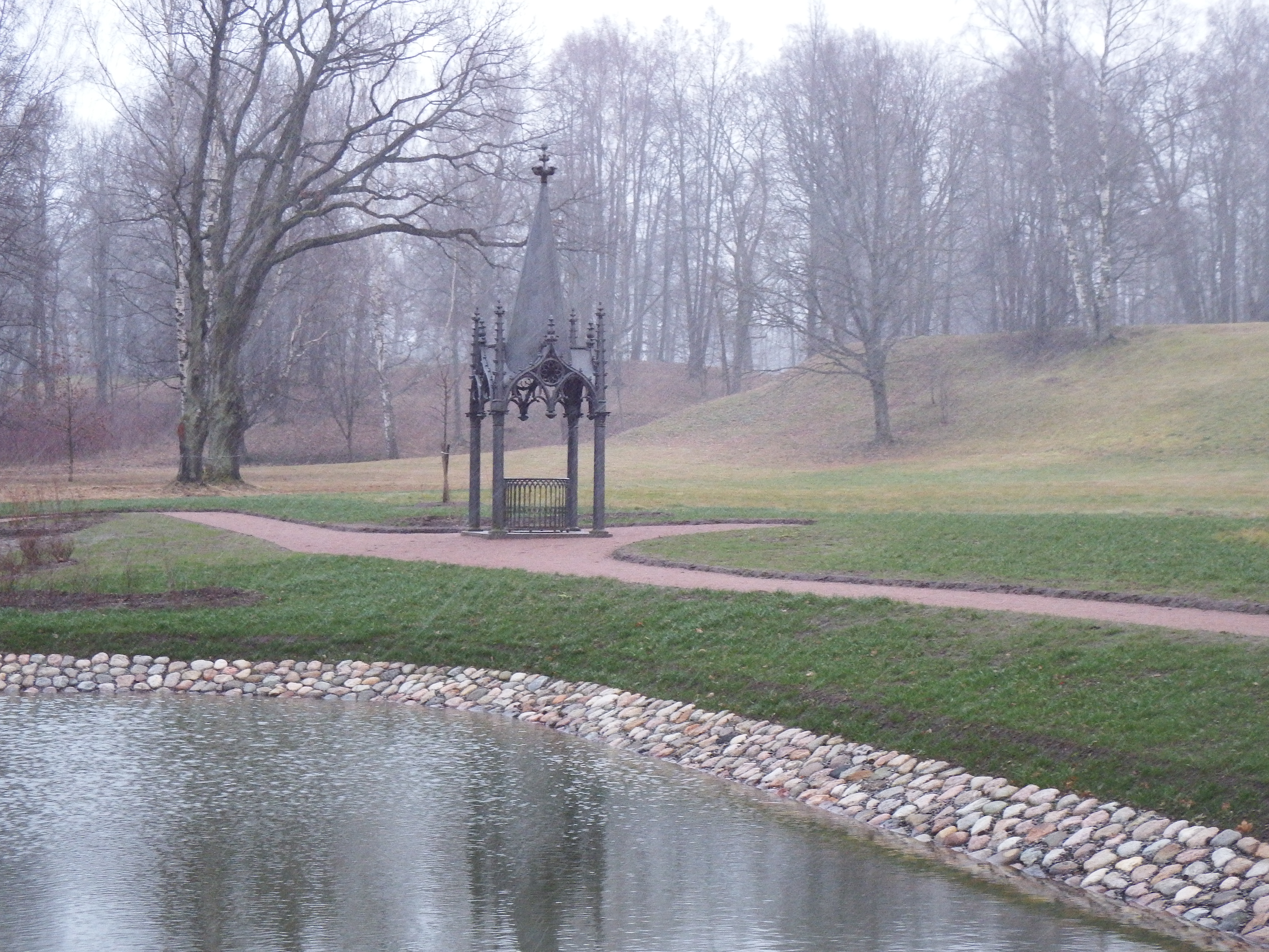 Gothic well after reconstruction